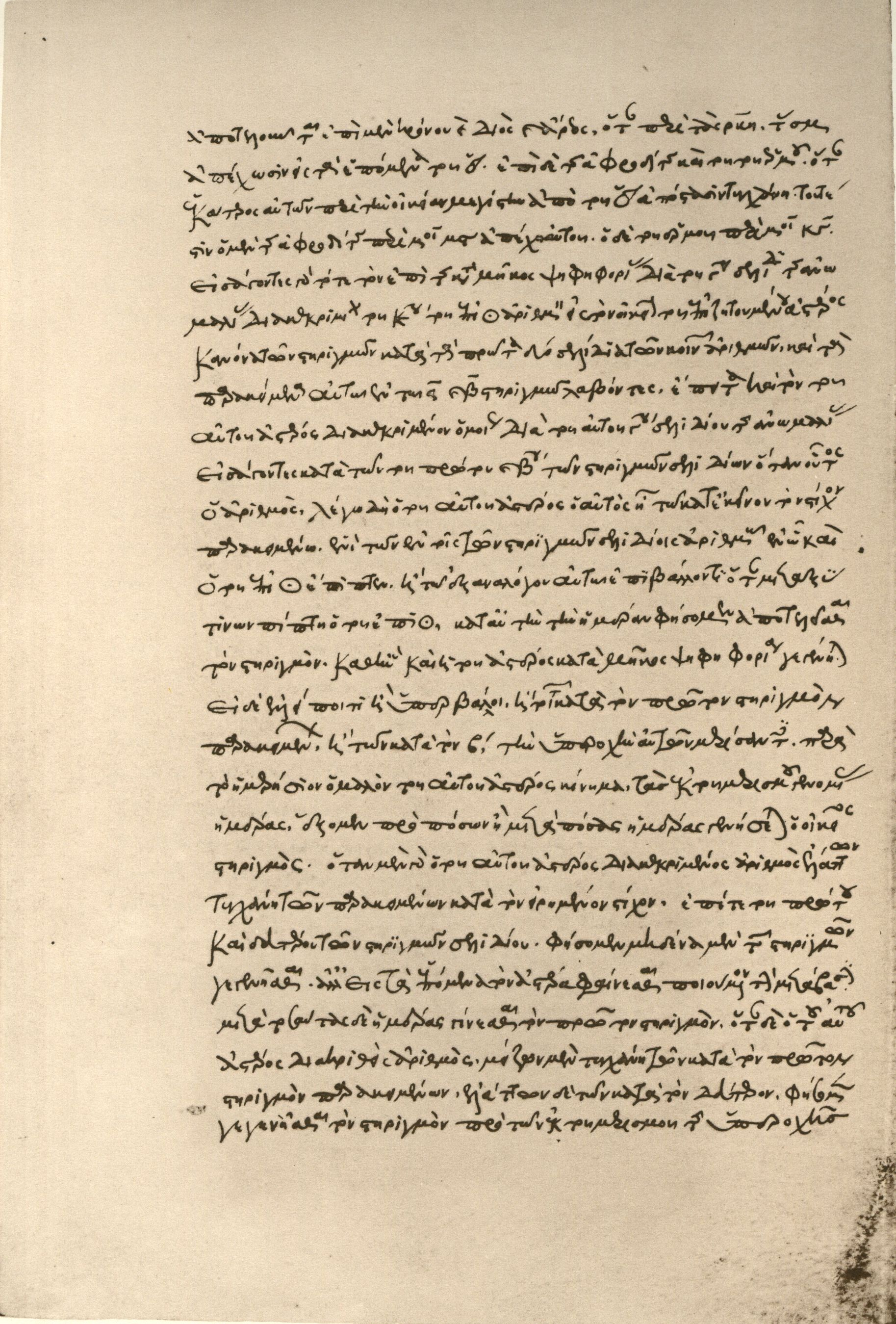 Theon of Alexandria, Commentary on Ptolemy’s “Canones manuales” (astronomical tables), in ms. Biblioteca Apostolica Vaticana, Vaticanus graecus 175, fol. 52v.